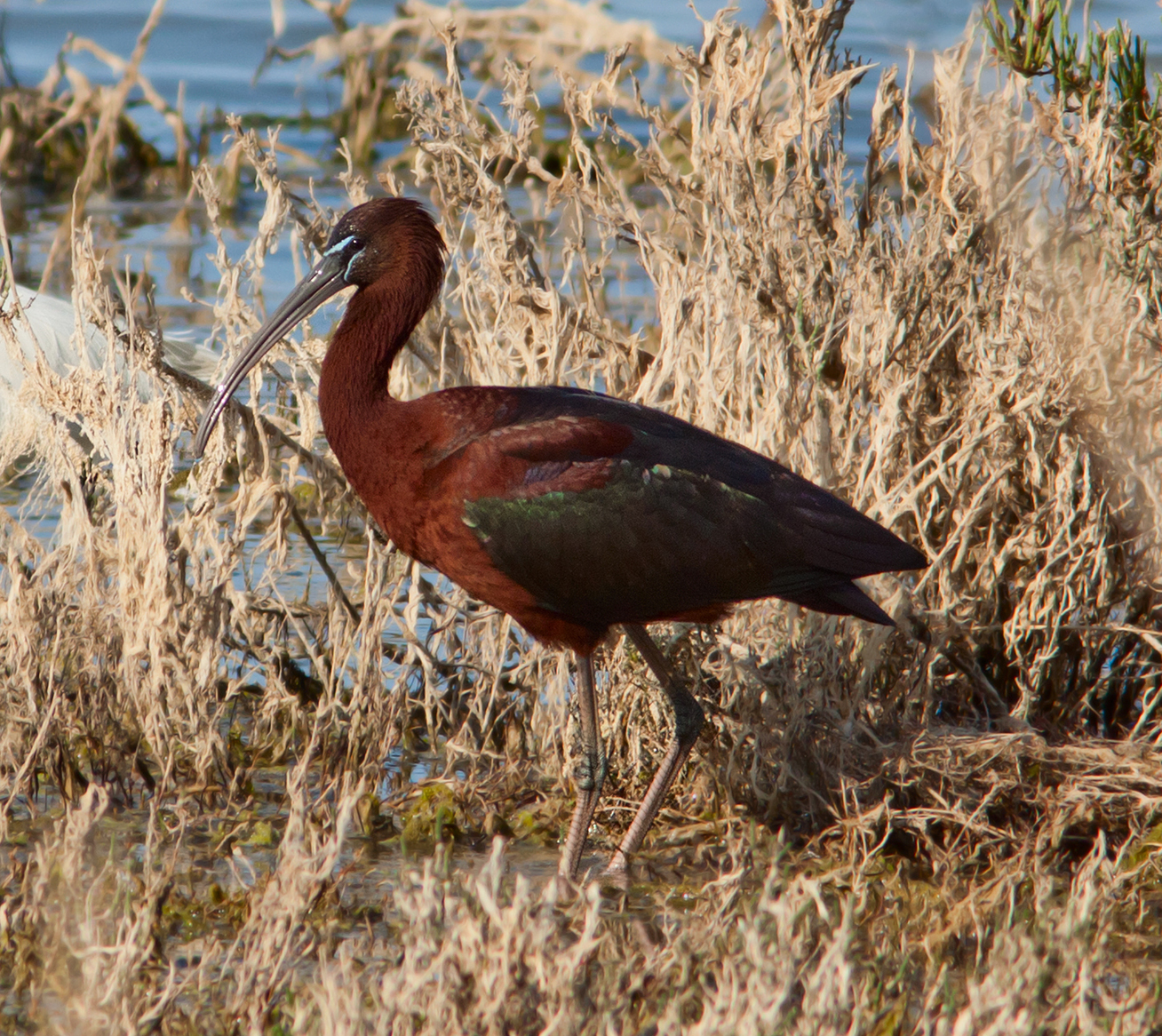 Glossy ibis (Plegadis falcinellus), Syracuse, Sicily, Italy